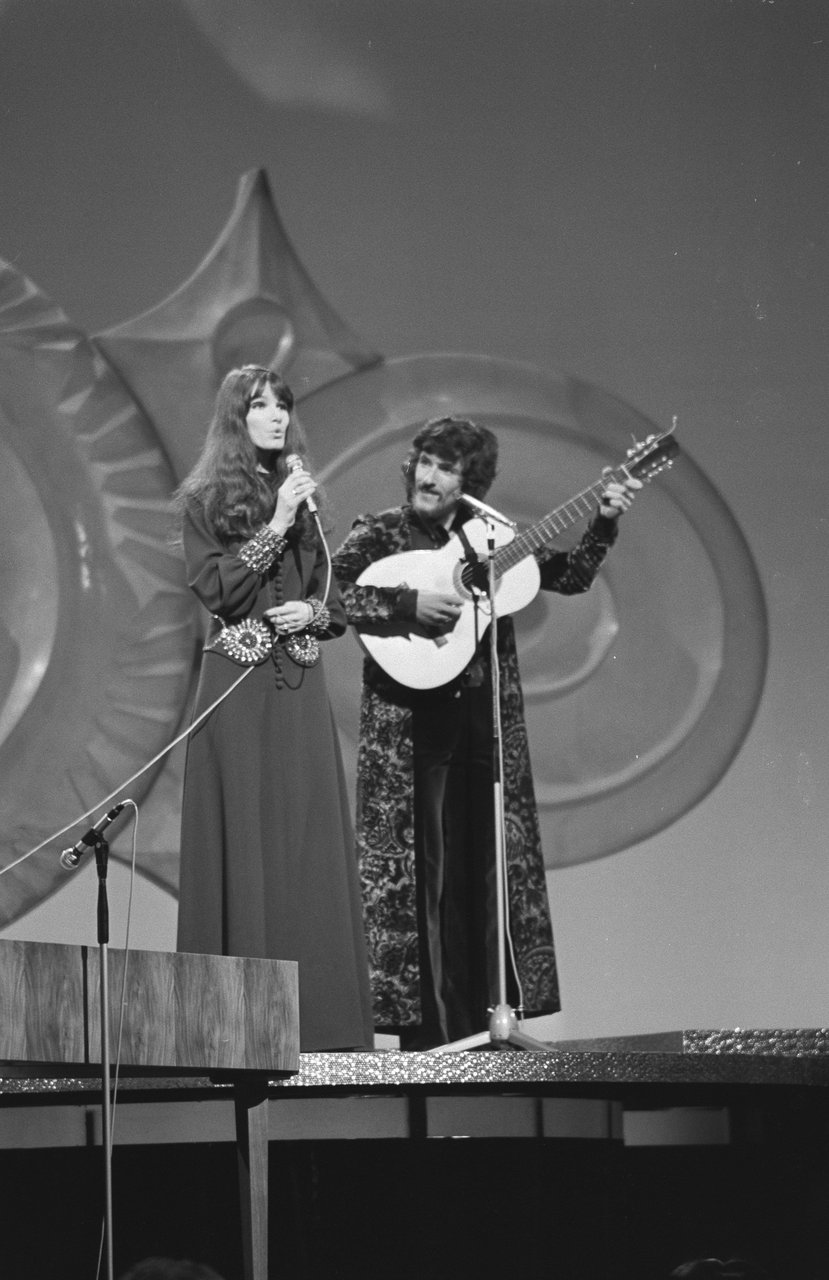 Saskia & Serge at the 1971 Eurovision Song Contest in Dublin